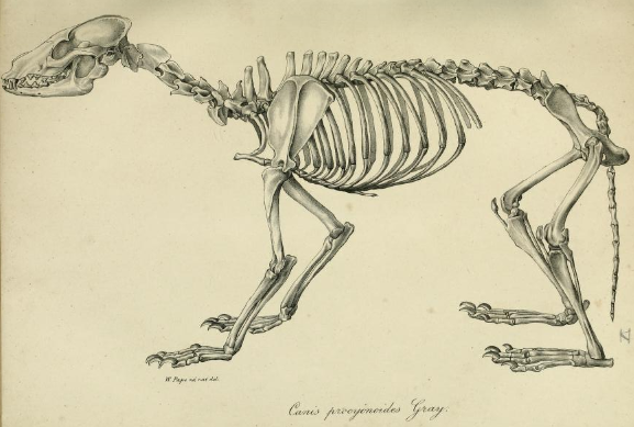 Raccoon dog skeleton